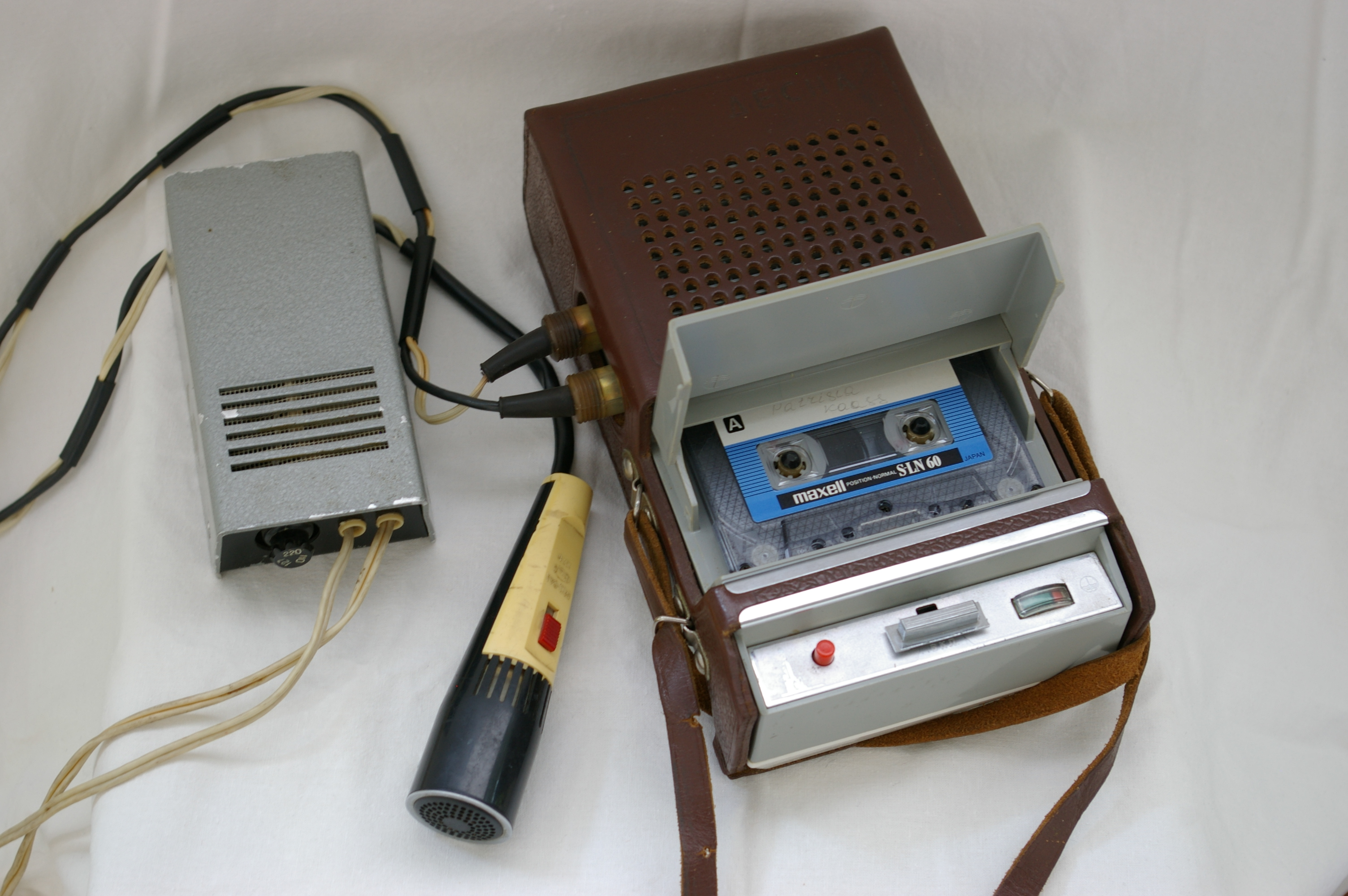 Desna, Soviet first cassette recorder, Proton factory, Kharkov, 1969 (Philips EL3300 clone) with microphone and external power supply unit. Main control lever button is not authentic.